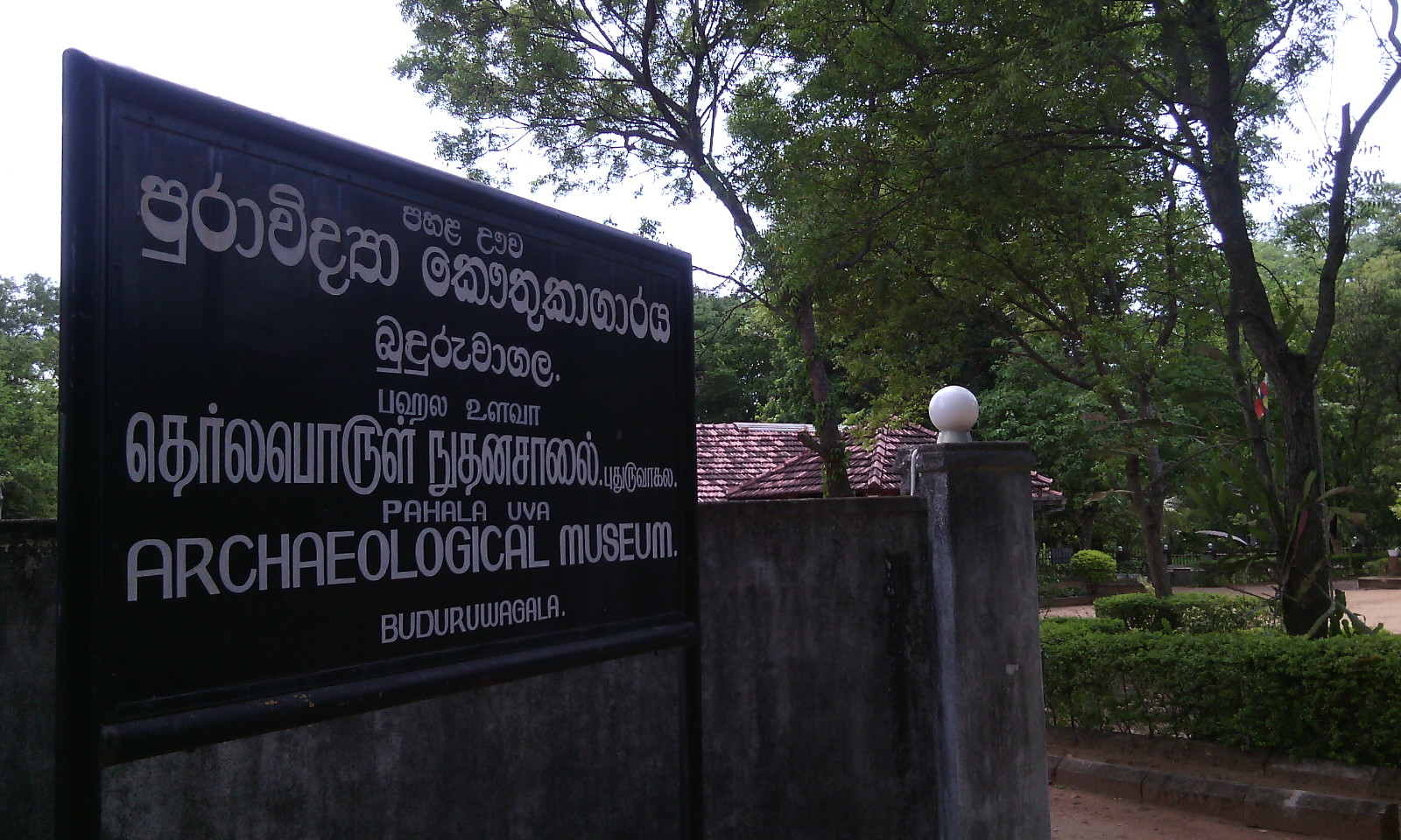 Name board of museum